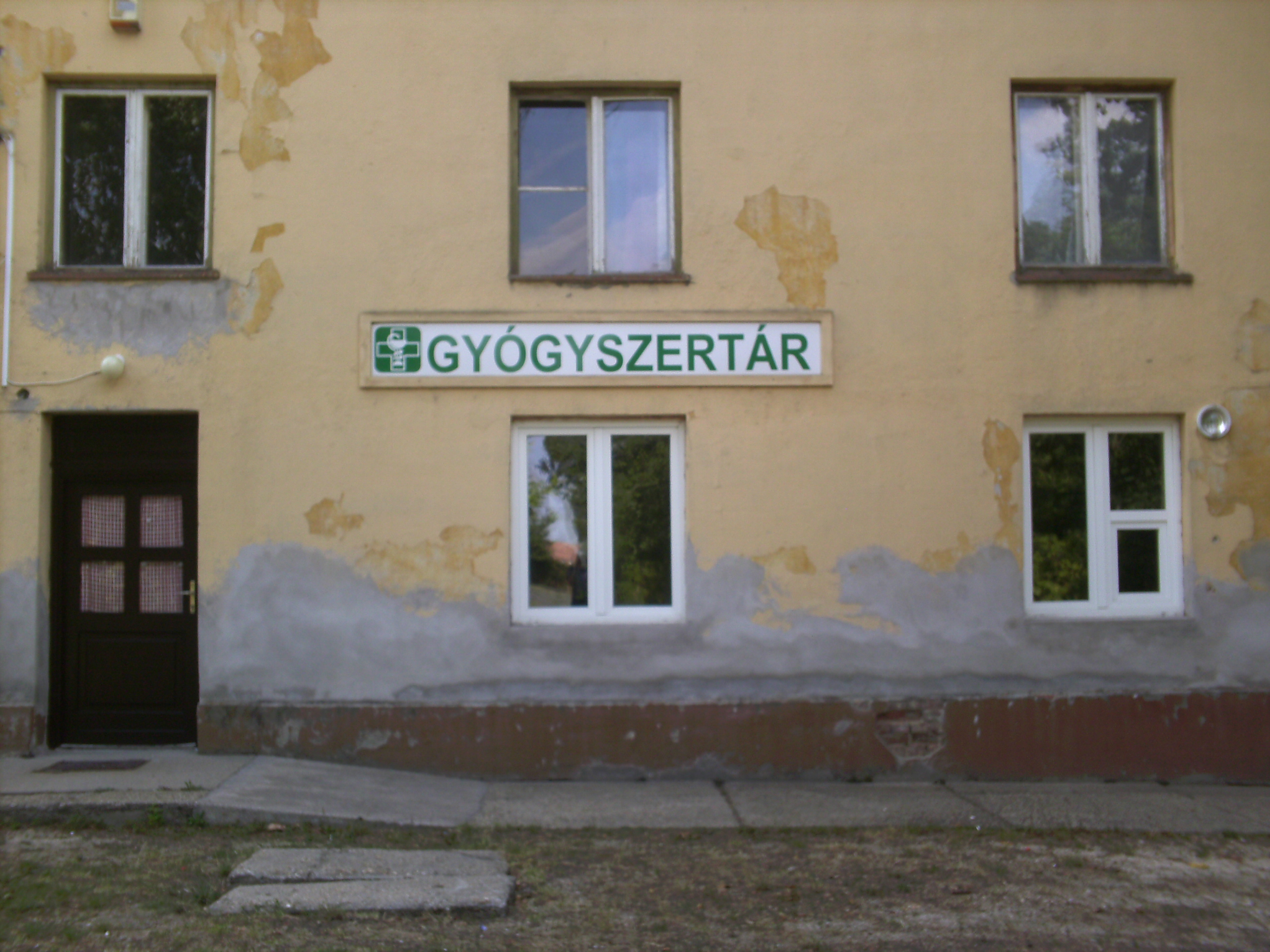 The temporary place of chemist's in Zichyújfalu.